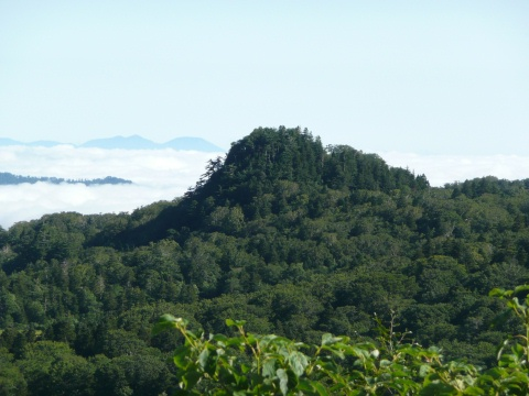 Mount Komonomori seen from the SSW, in Kazuno, Akita Prefecture, Japan.